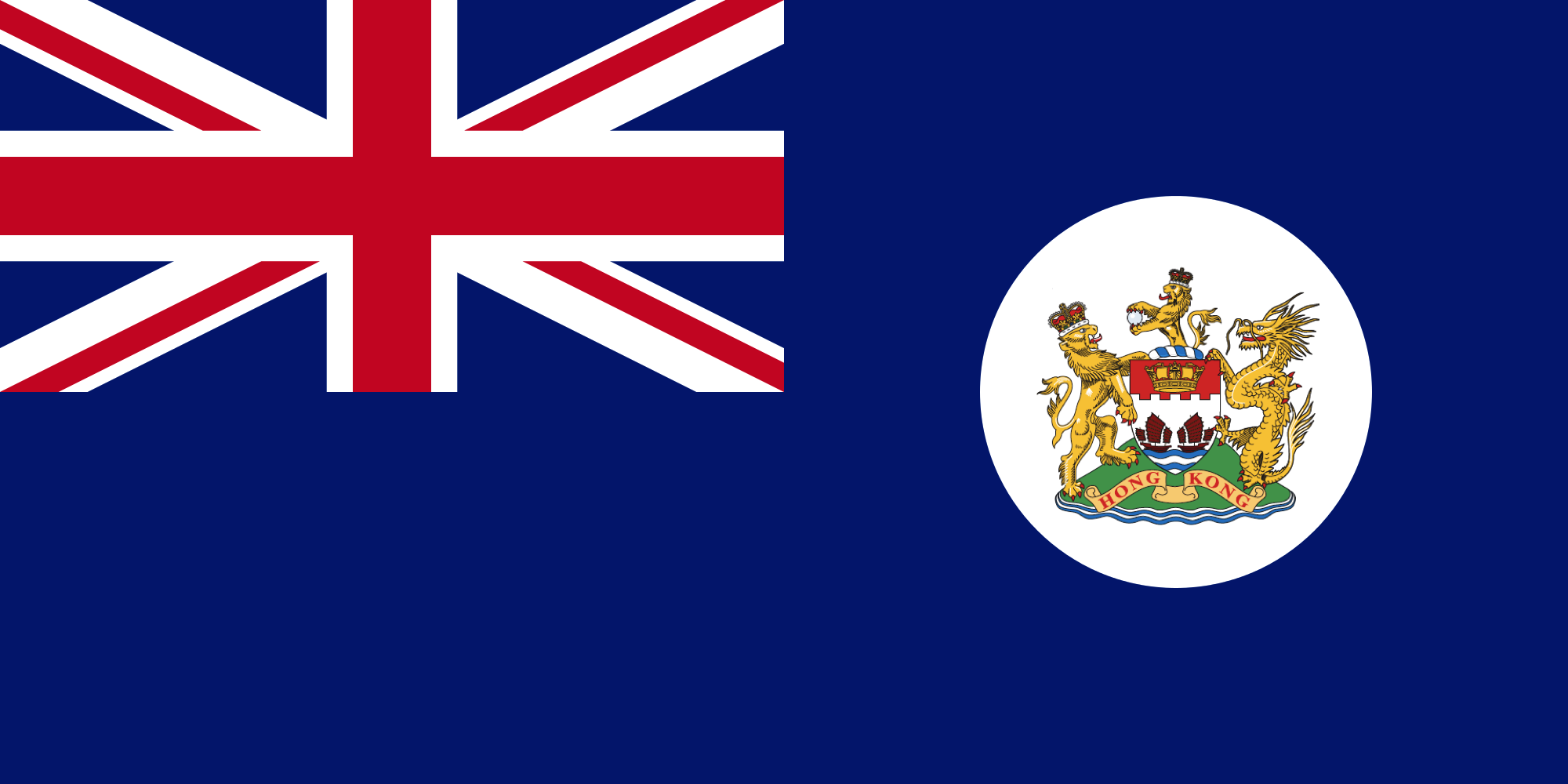 Flag of Hong Kong (1959-1997)